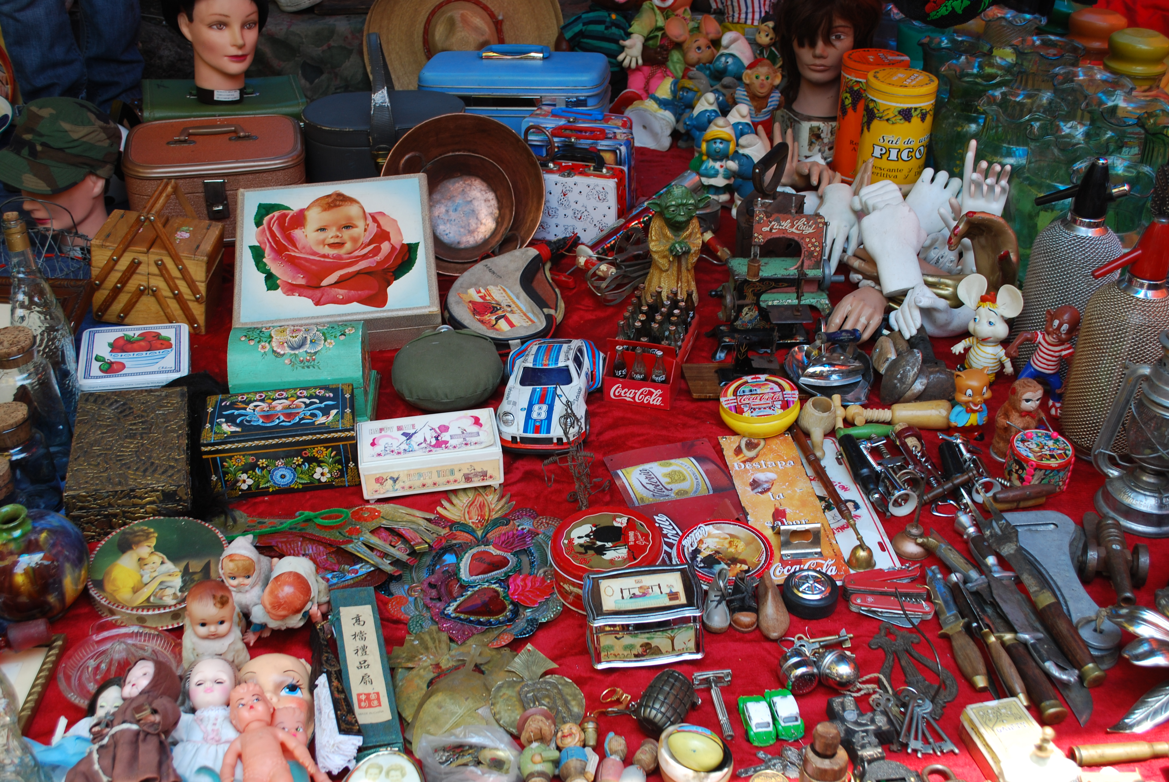 Collectibles for sale at the Sunday Lagunilla antiques market in Mexico City